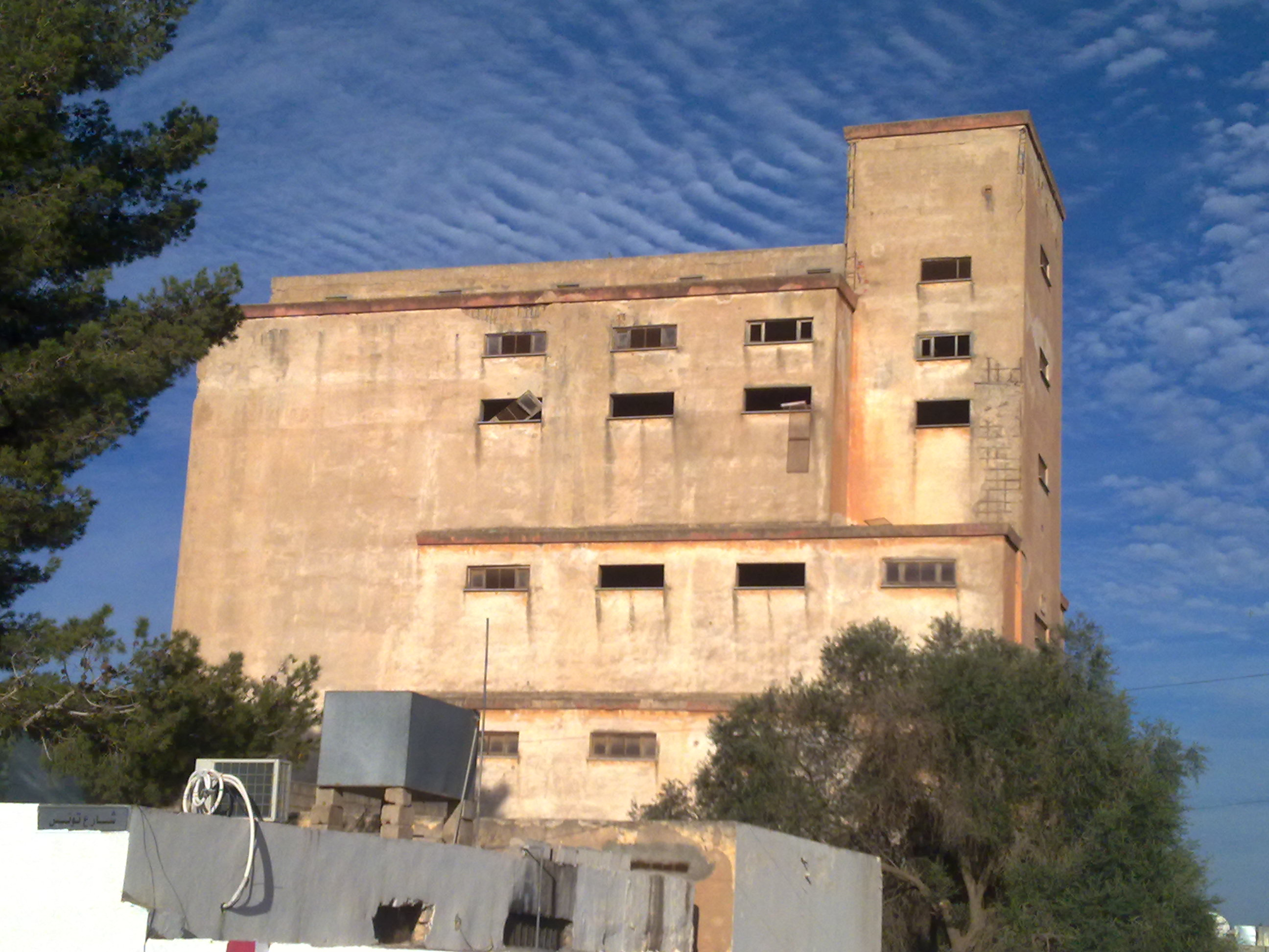 Tower Alsells in Al Bayda City, Libya.